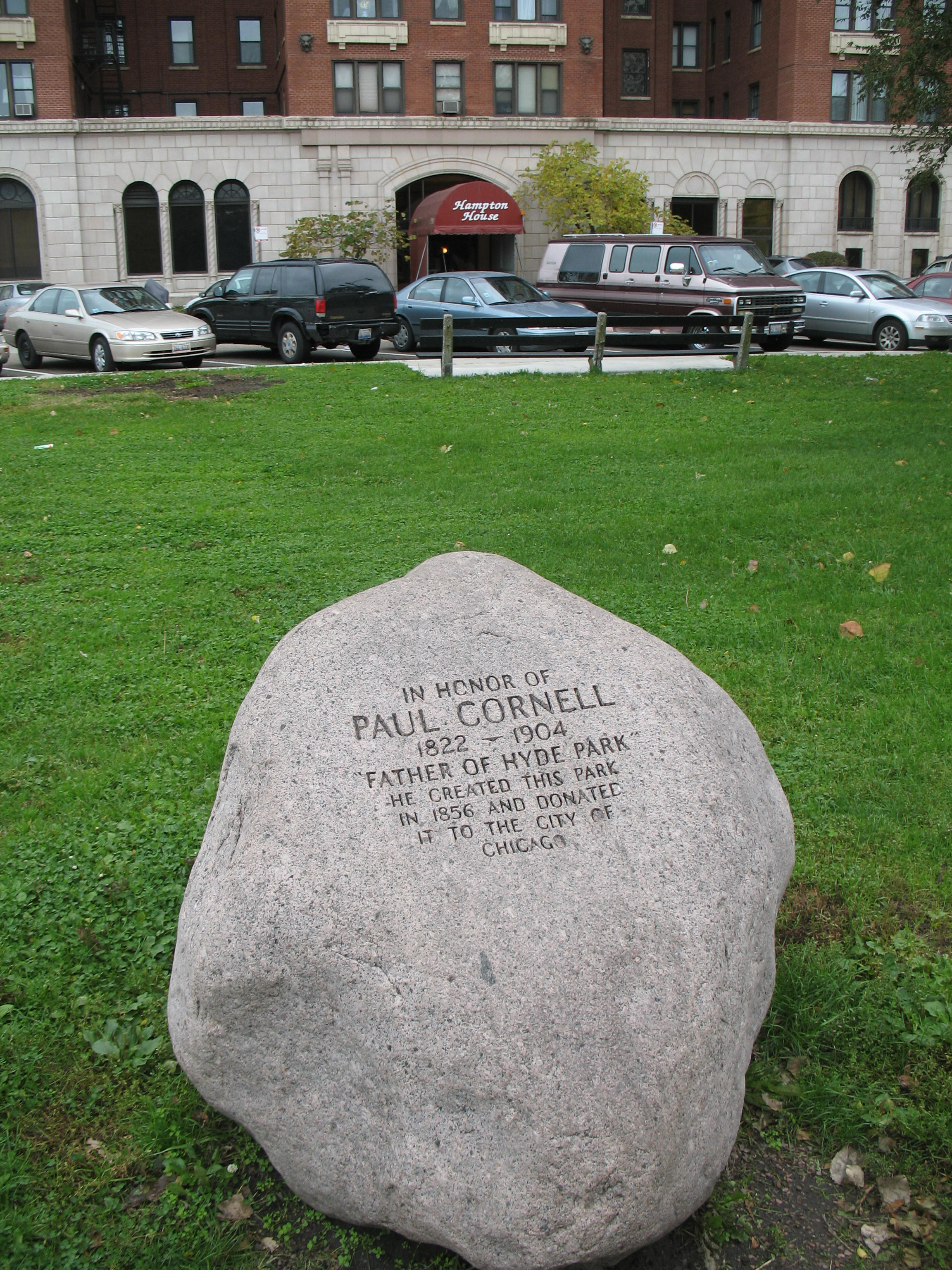 Paul Cornell stone in Harold Washington Park across from the Hampton House